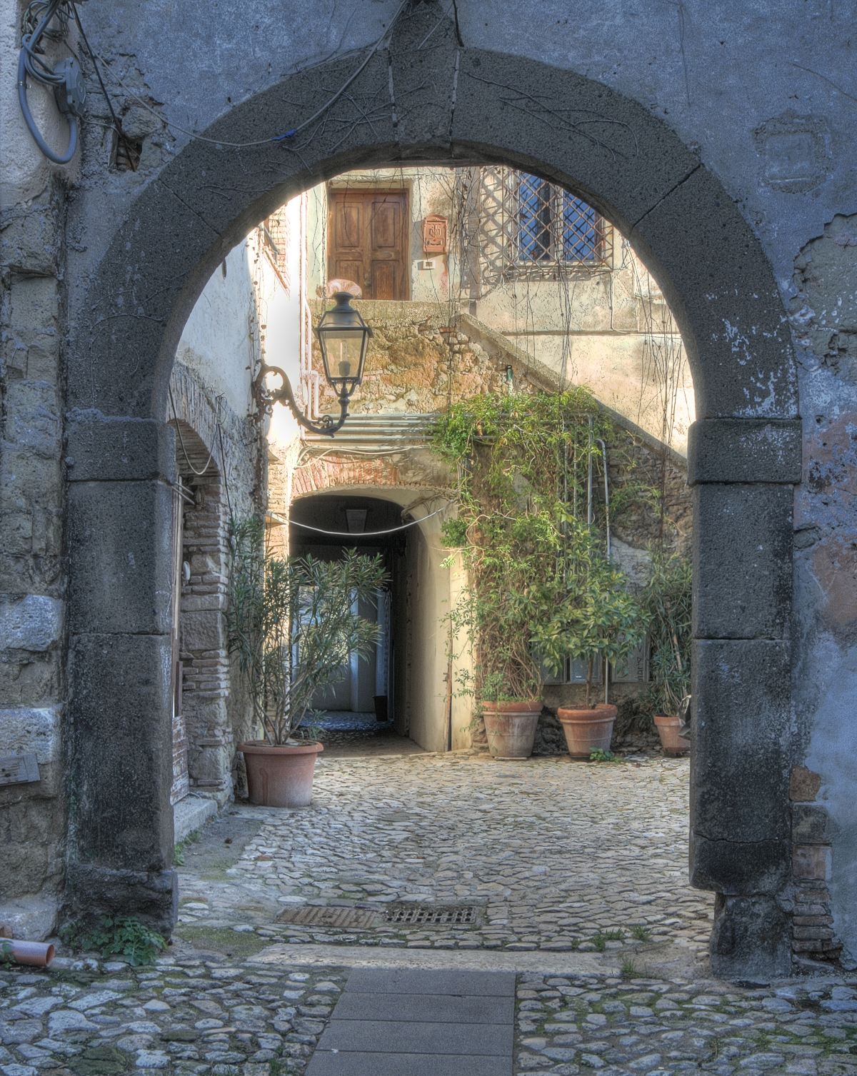 An archway opening onto a courtyard within the former monastery complex in Capena